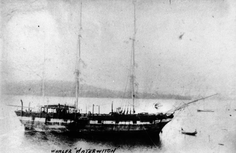 Whaling ship Water Witch, a three-masted barque built in 1871. (From description supplied with photograph.)